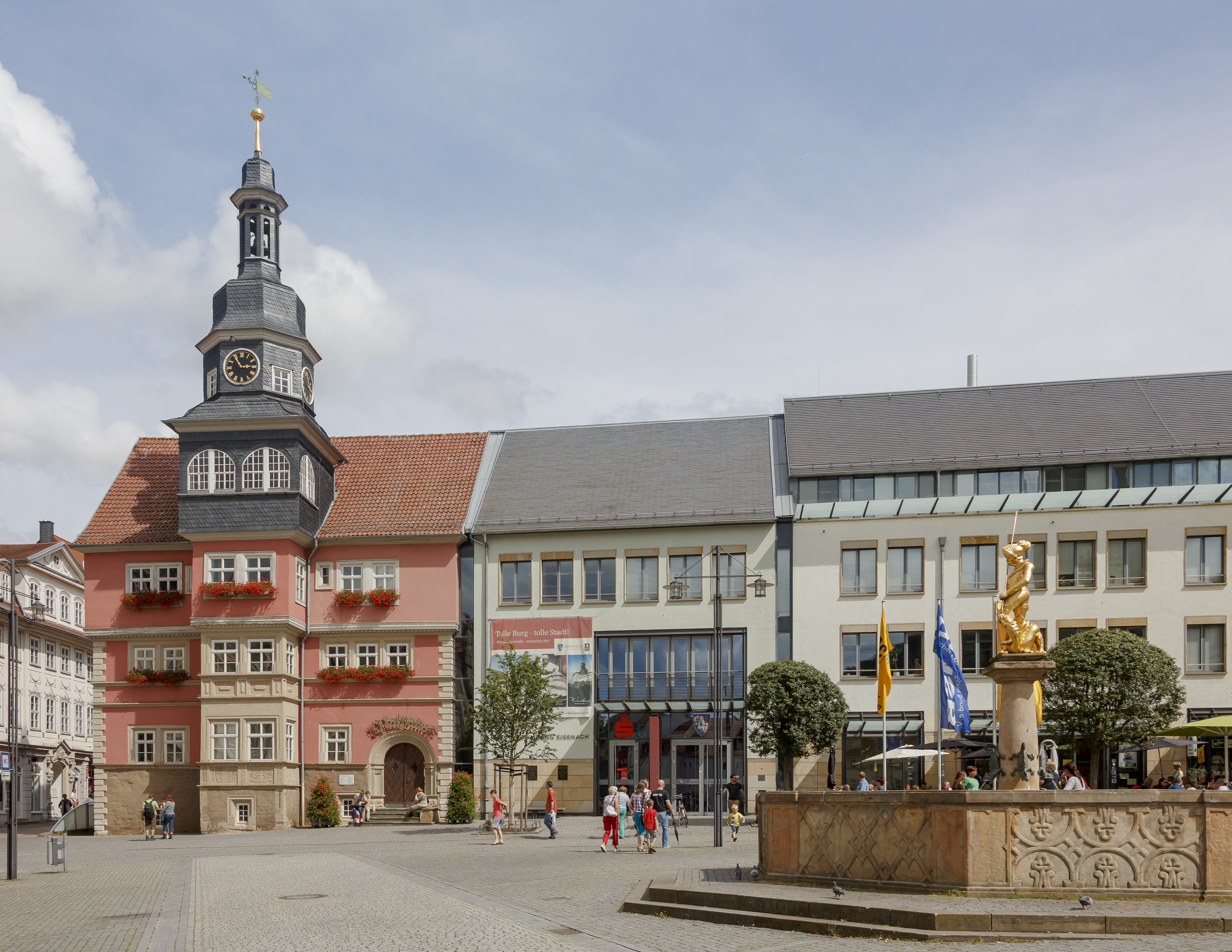 Eisenach, Germany: Market of Eisenach with towns hall and St.-Georgsbrunnen